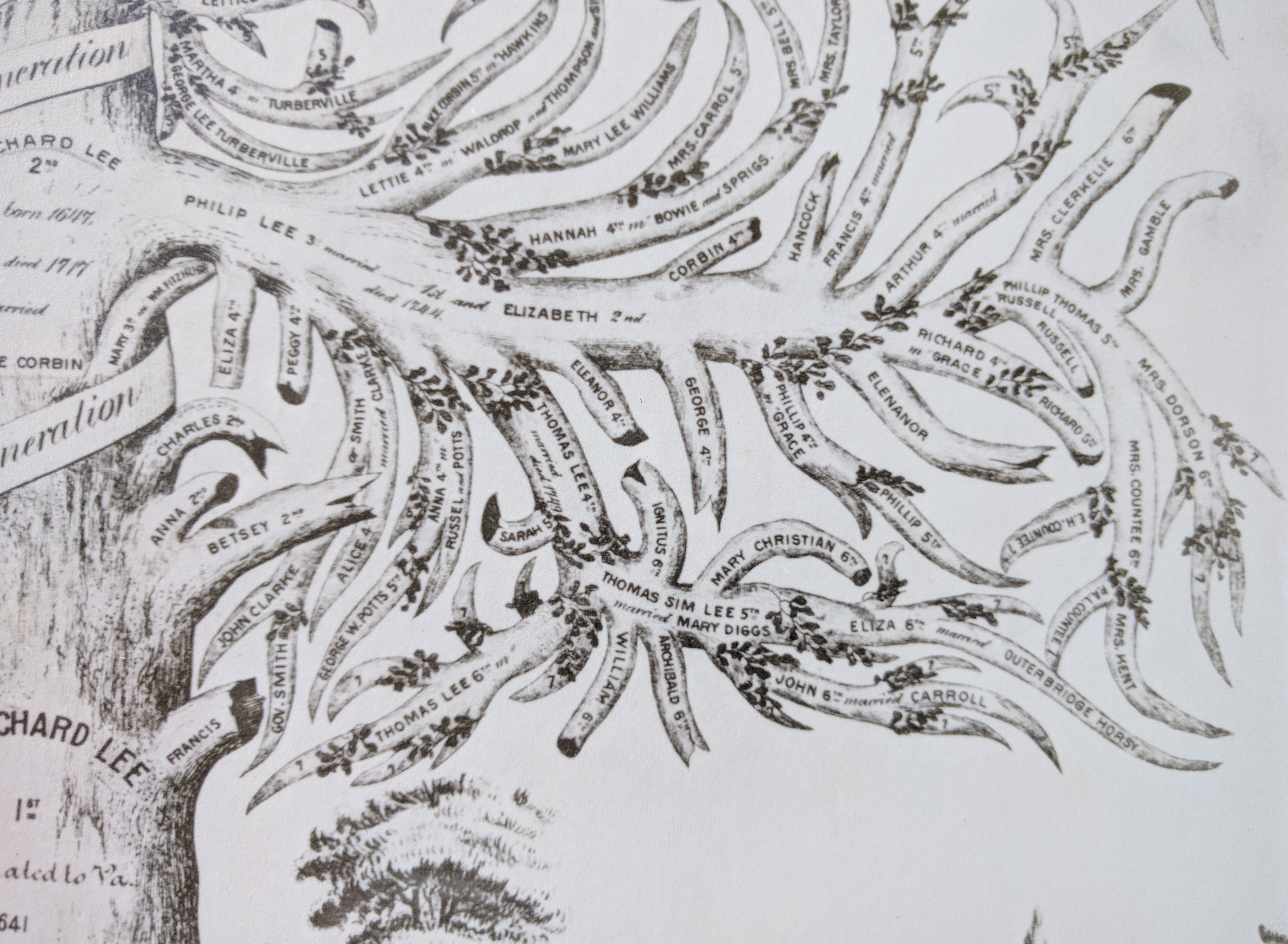 Extract of "Lee Family of Virginia and Maryland".